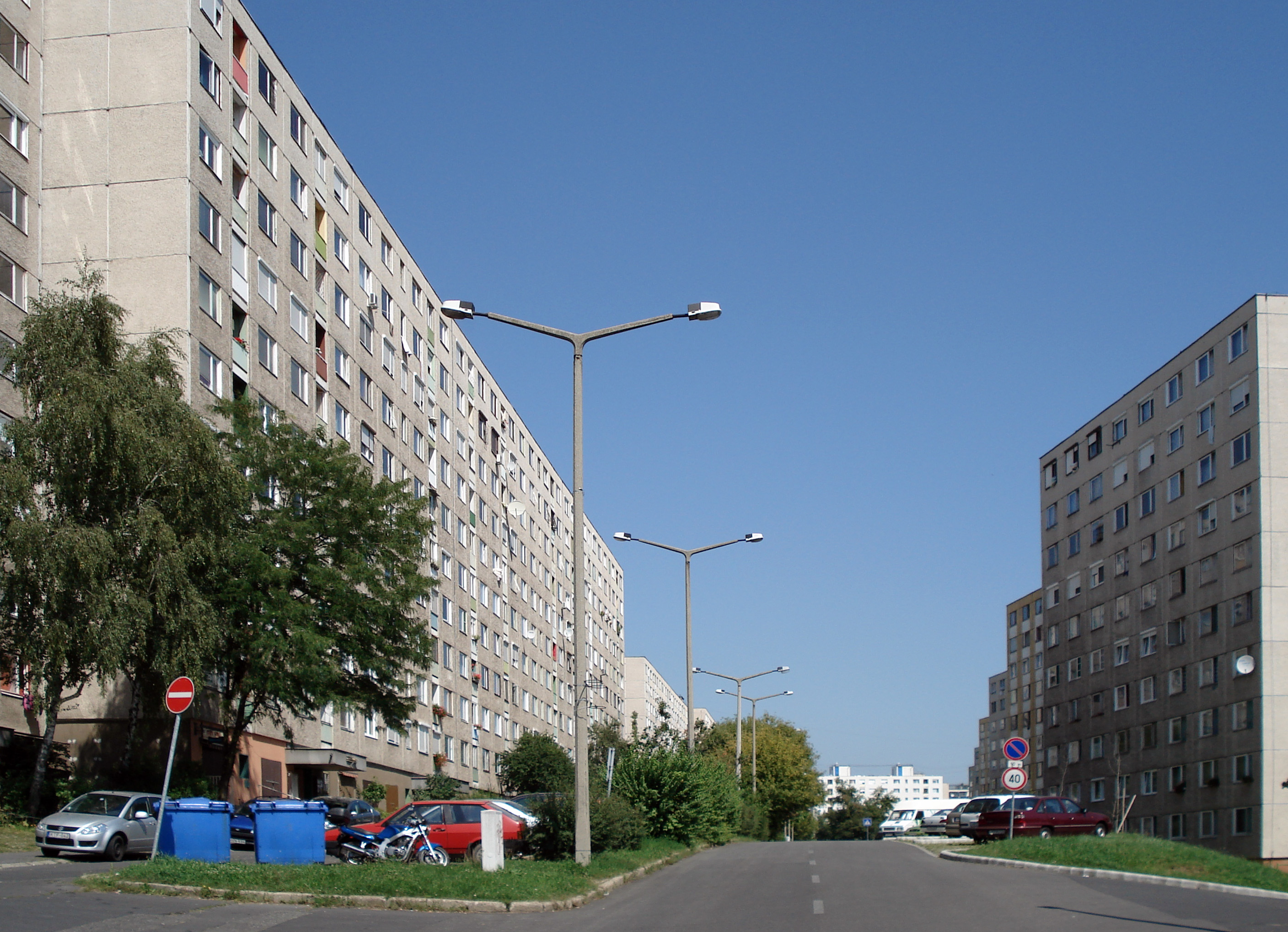 View of Avas housing estate, Miskolc, Hungary